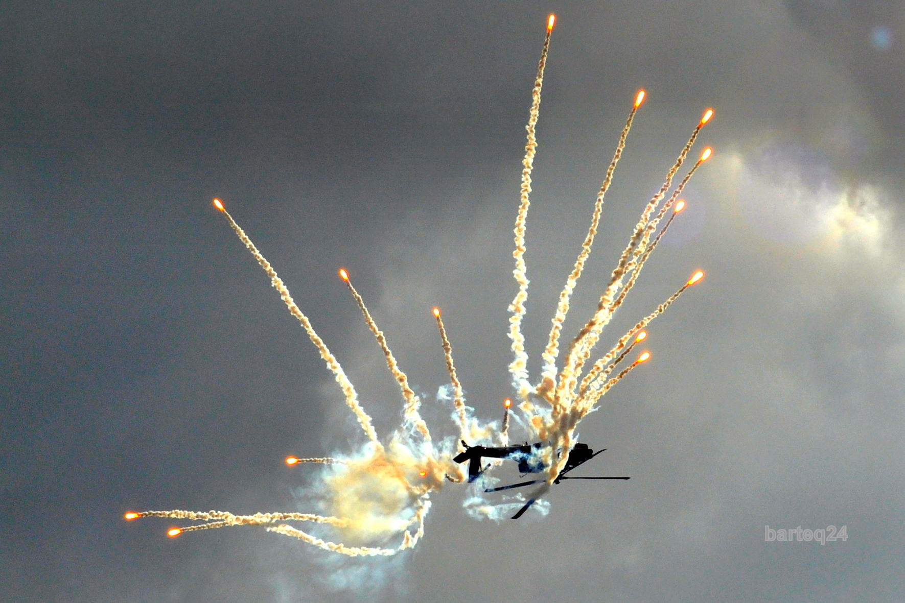 Q-17, c/n DN017, Royal Netherlands Air Force, 301 Squadron, Defence Helicopter Command, based at Gilze-Rijen Air Base